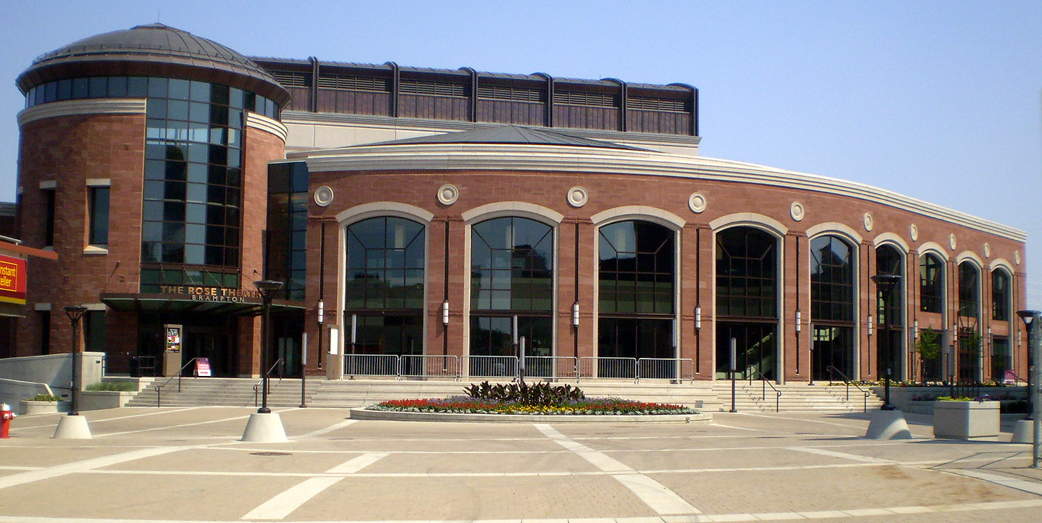 Picture of the Rose Theatre, Brampton. Taken June, 2007.